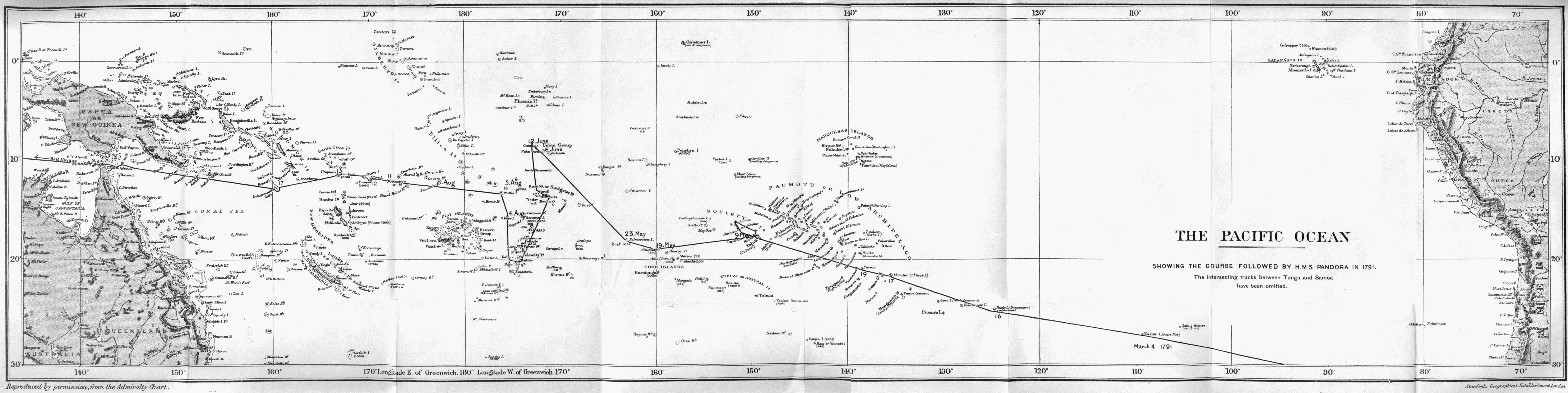 HMS Pandora Voyage in 1791, which was in search of the mutineers of HMS Bounty, drawn on Admiralty Chart